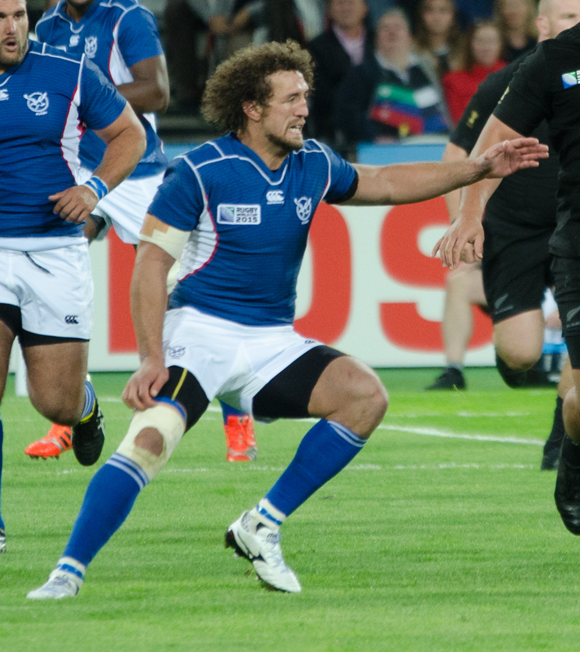 Game between New Zealand and Namibia in the 2015 Rugby World Cup at Olympic Park.